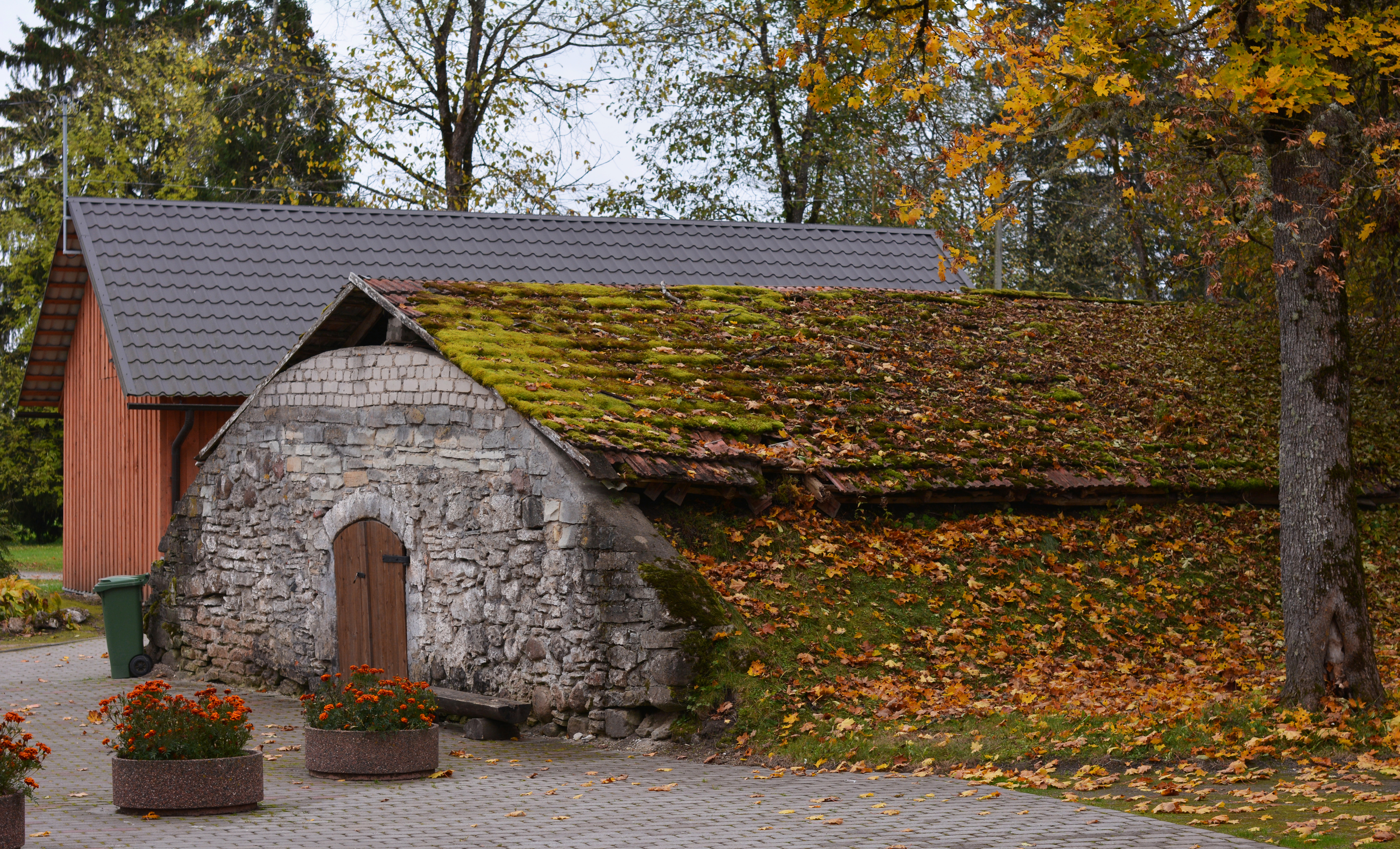 Cellar in Laupa manor. Time of building isn't know, but it's there at least since year 1881.